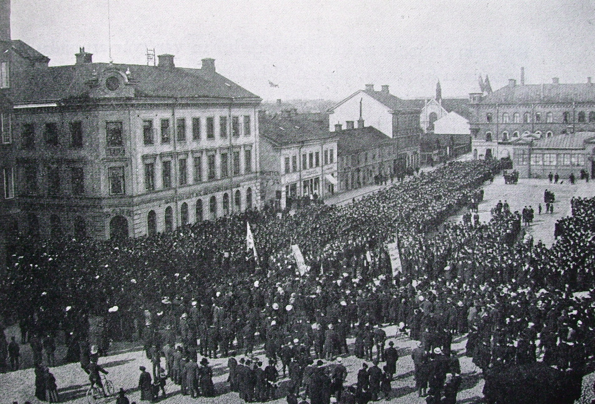 Picture of workers meeting at Fristadstorget in Eskilstuna